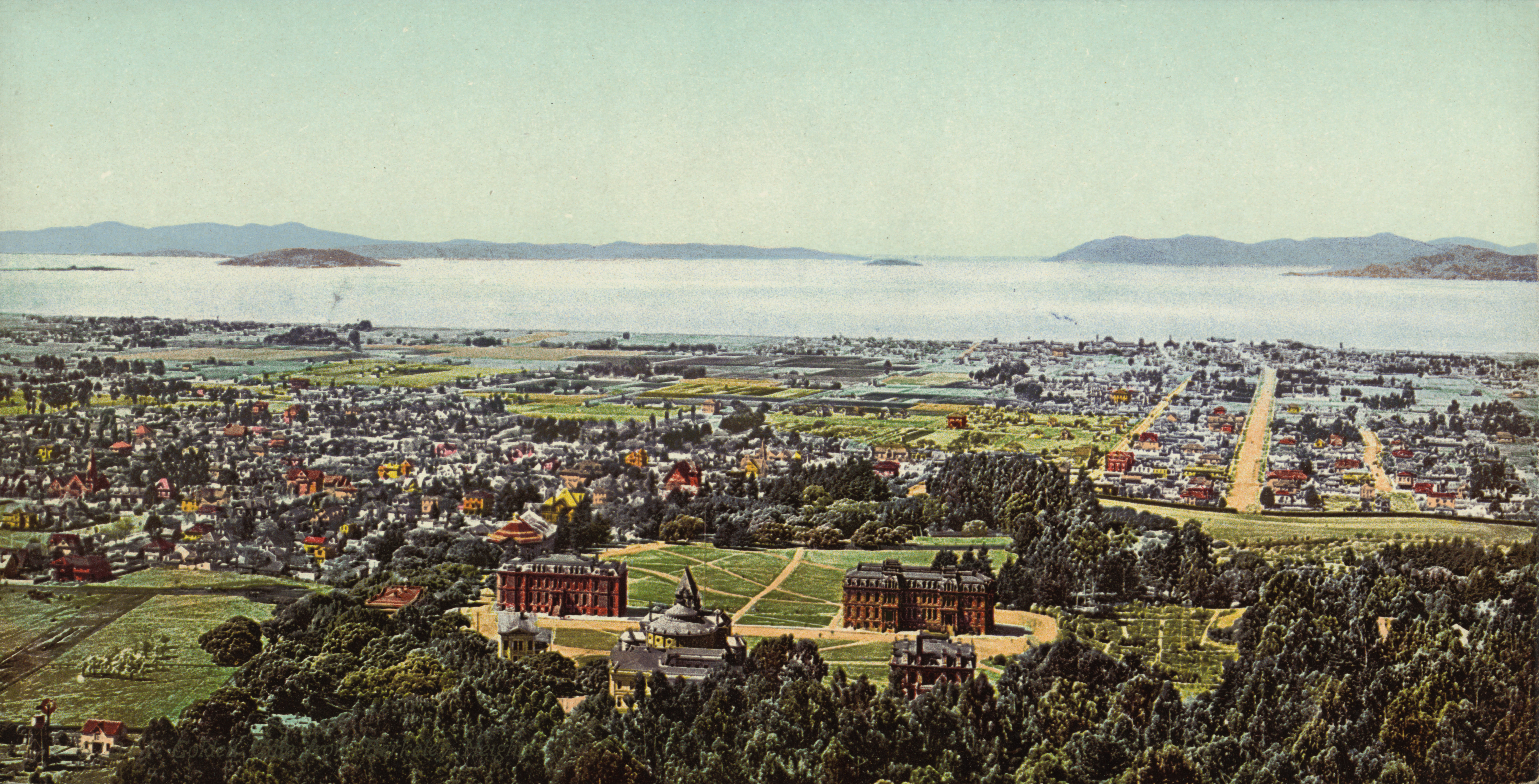 Golden Gate from Berkeley Heights